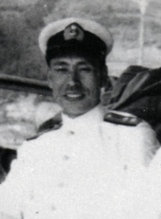 Kato Ryonosuke is an Imperial Japanese Navy Rear Admiral